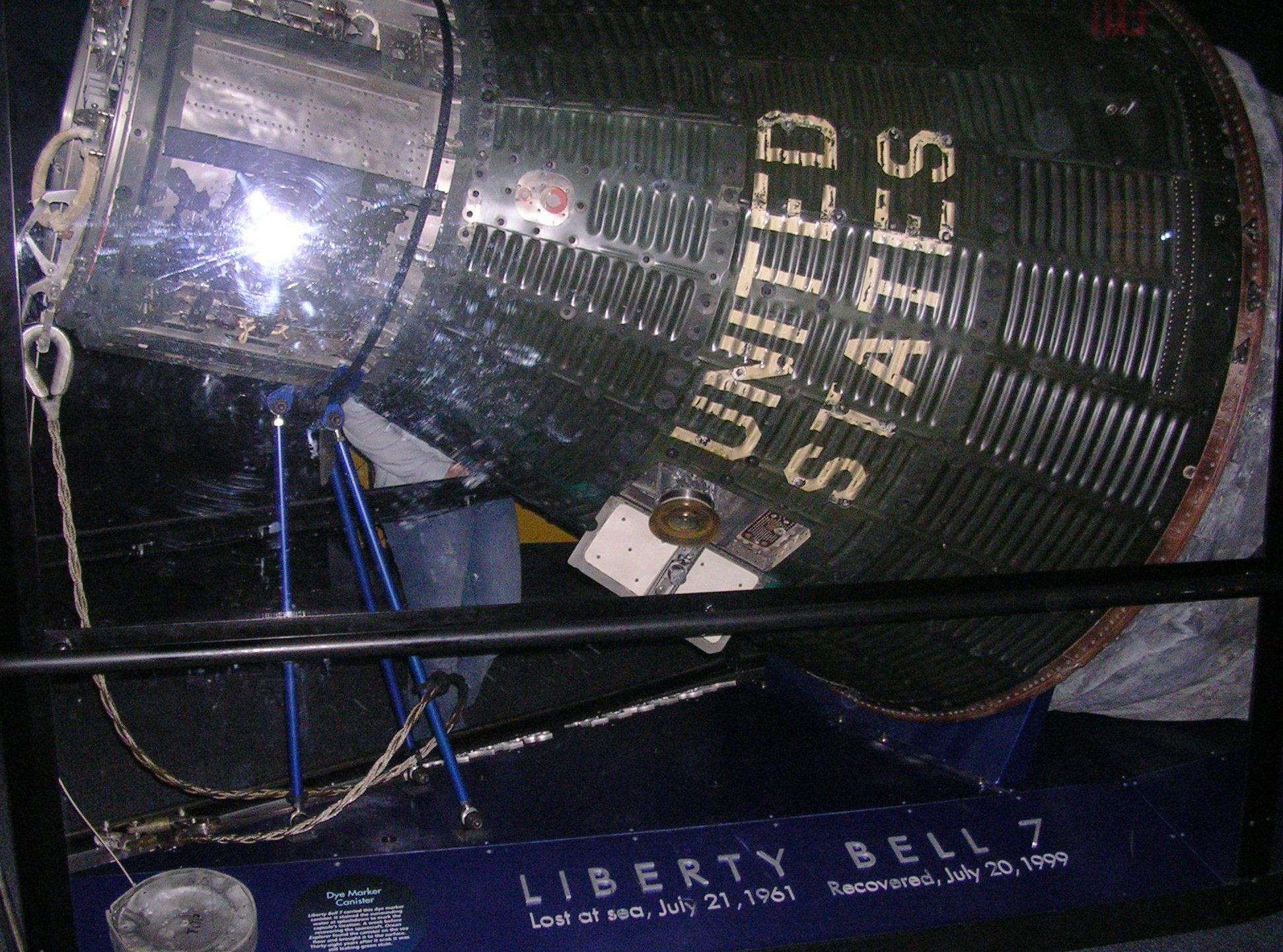 Photo taken by Slammer111 on 23 July 2006